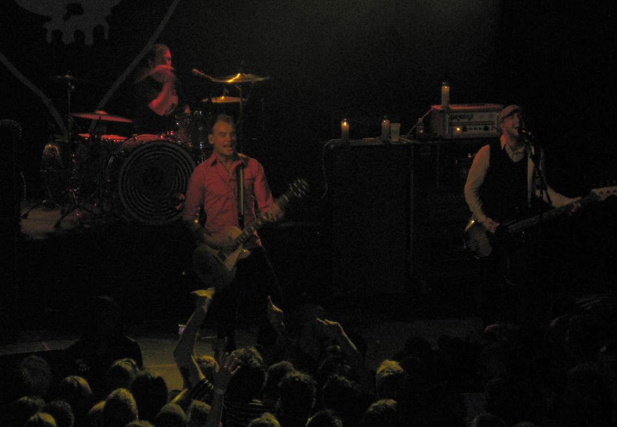 Alkaline Trio, an American punk rock band from McHenry, Illinois, performing in 2008.